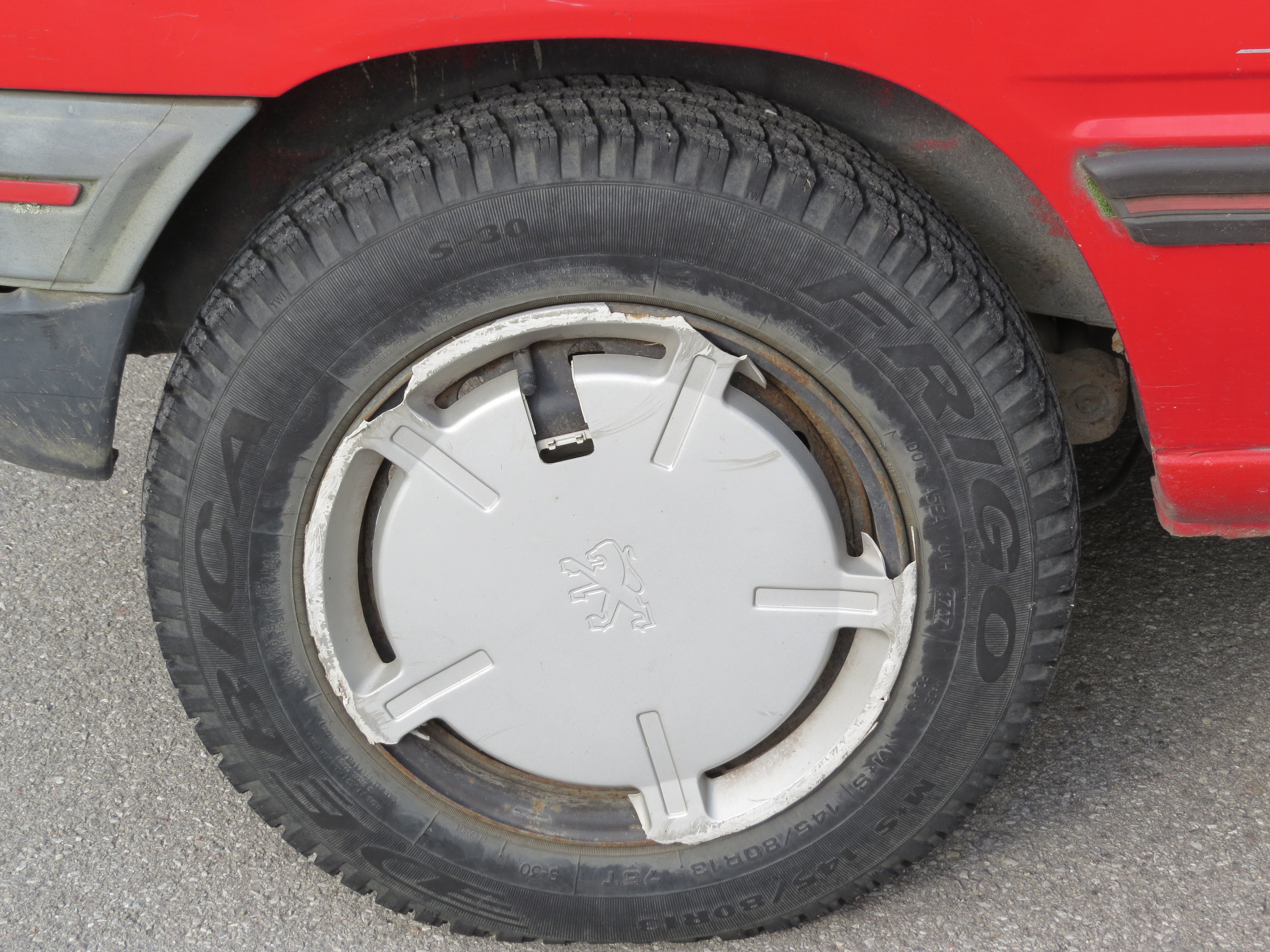 Debica Frigo S-30 145/80 R 13 75 T tire at Bahnhof Traismauer